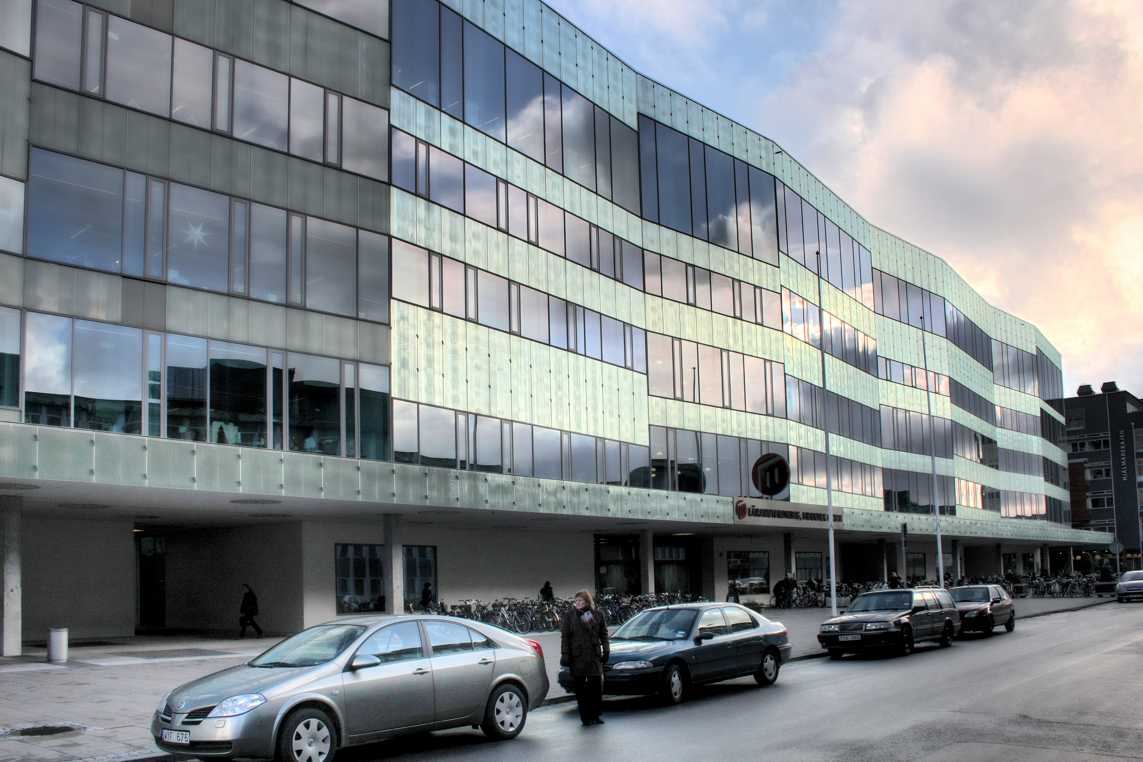 Orkanen building at Malmö University. The image has been assembled from three exposures with HDR software.